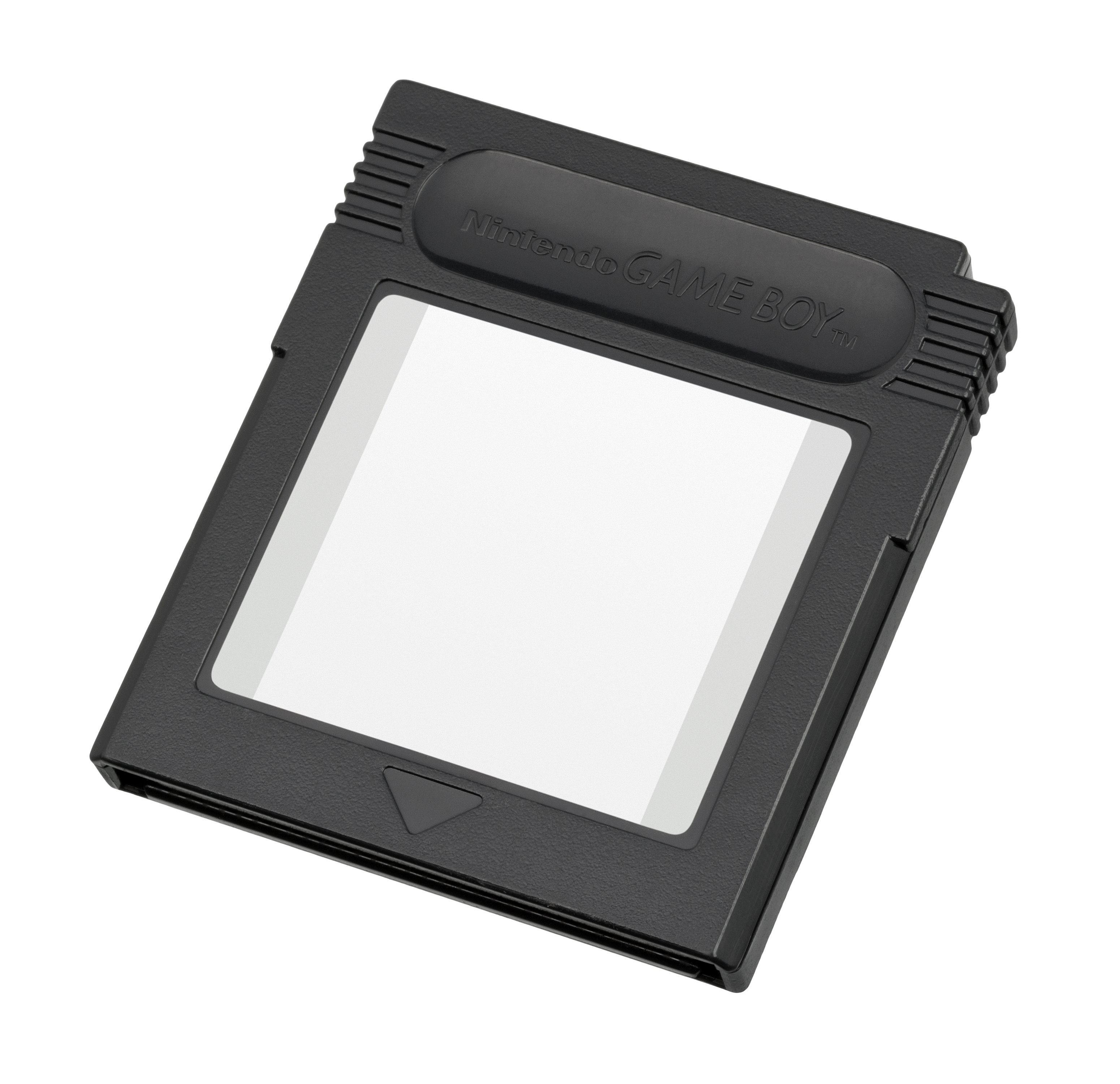 A blanked-out cartridge for the Nintendo Game Boy handheld console. This is a black version, which was used for Game-Boy-Color-enhanced titles.